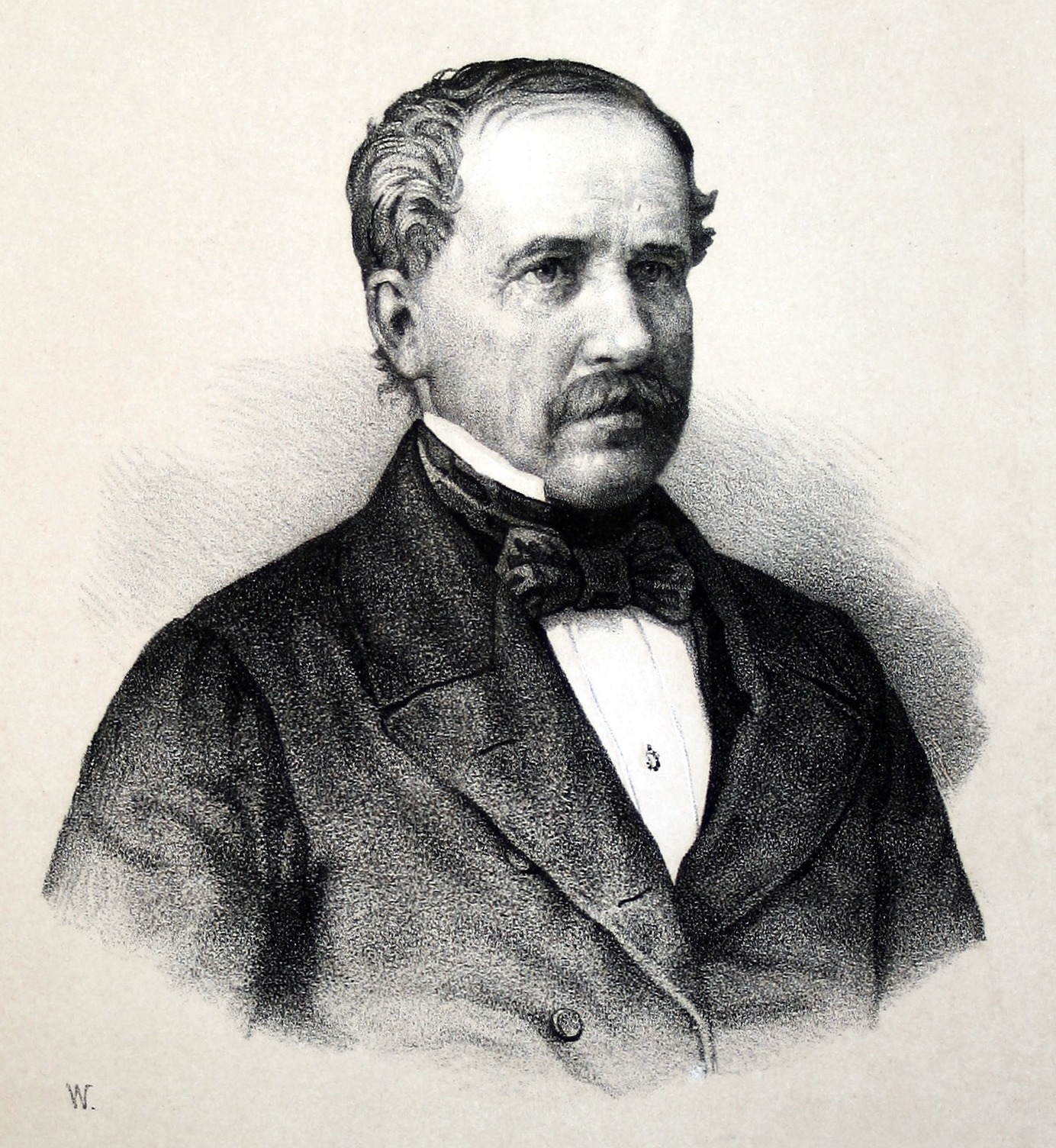 Portrait of Nils Ericson from the book "Svenska industriens män" (1875)